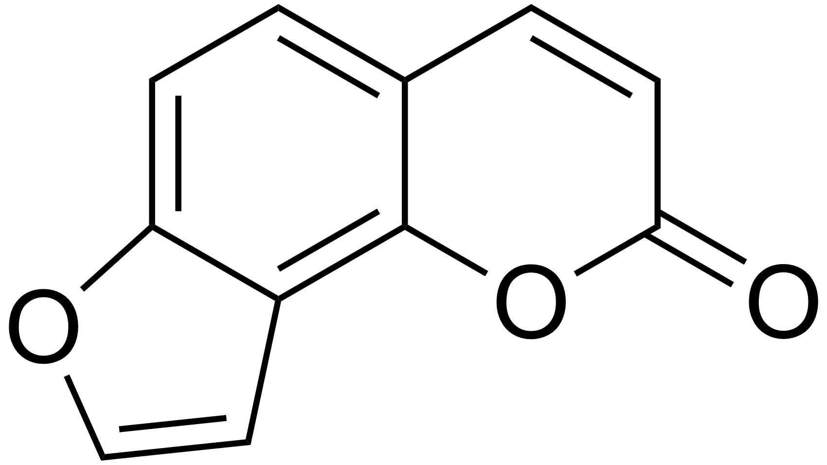 Chemical structure of angelicin created with ChemDraw.